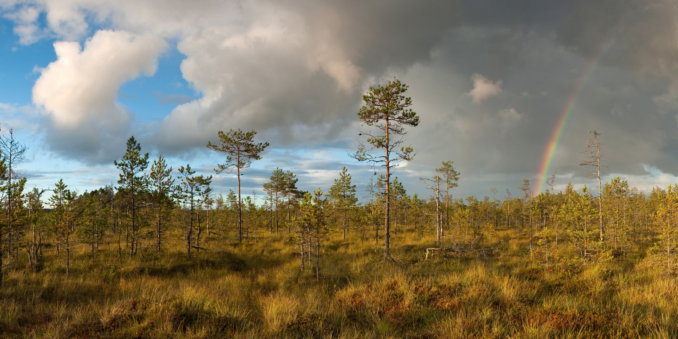 Luhasoo bog in Rõuge Parish, Estonia.